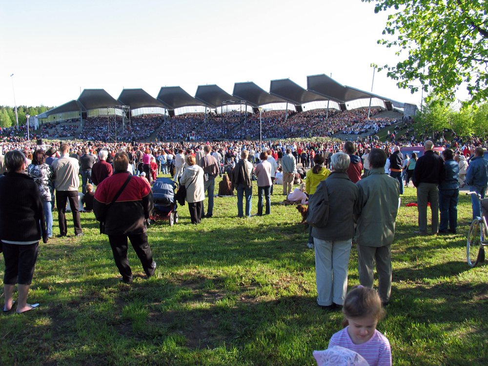 Joensuu Laulurinne Summer Festival Centre